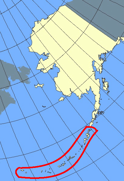 A derivative of a US Government created file that shows Alaska with the Aleutian Islands circled in red.